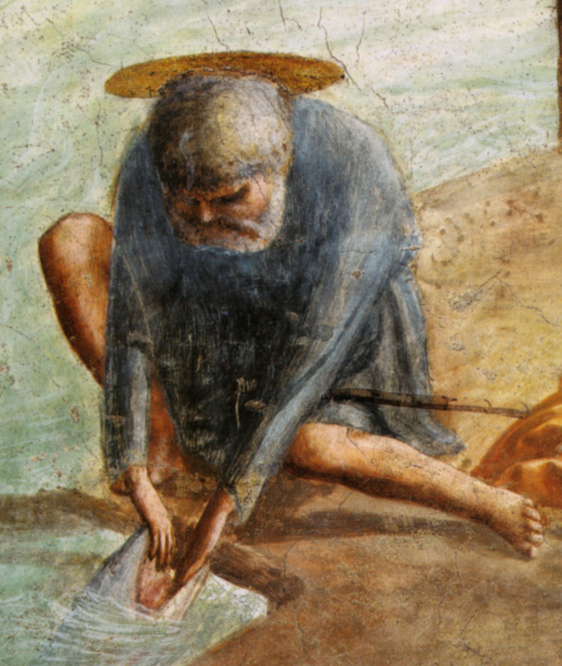 Tribute money 25